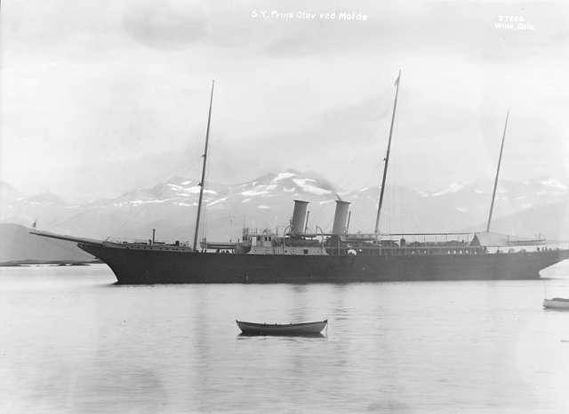 Norwegian passenger ship SS Prins Olav in Molde. This ship is the former British Royal Yacht Alexandra built in 1908 and sold to the Norwegian shipping company NFDS in 1925. After a complete rebuild, she sailed in the coastal express service (Hurtigruten) from 1937 to 1940.